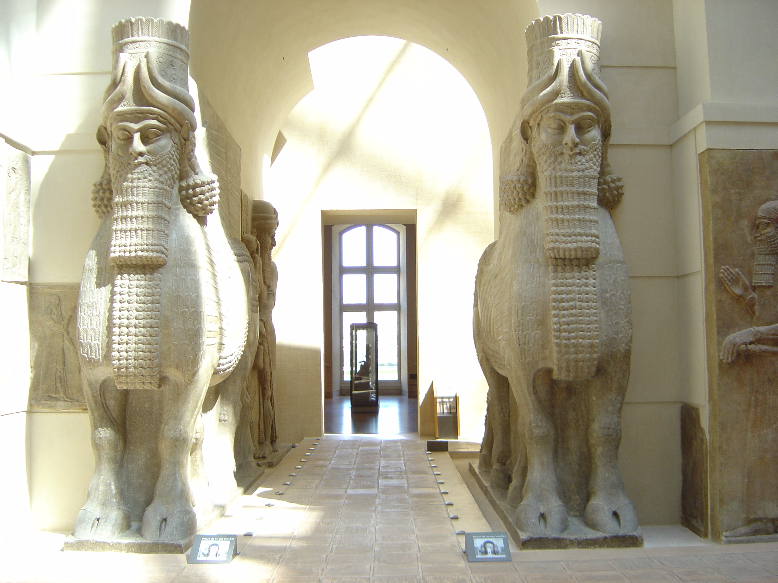 (human-headed winged bulls) guarding the gates of the Wall M, Gates of takhte jamshid now in shiraz pars iran ,(persepolis) .